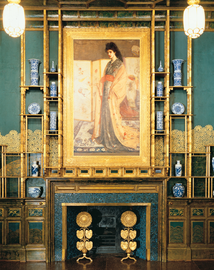 An image of James Abbott McNeill Whistler's The Princess from the Land of Porcelain hanging over the fireplace in the Peacock Room at the Freer Gallery of Art.